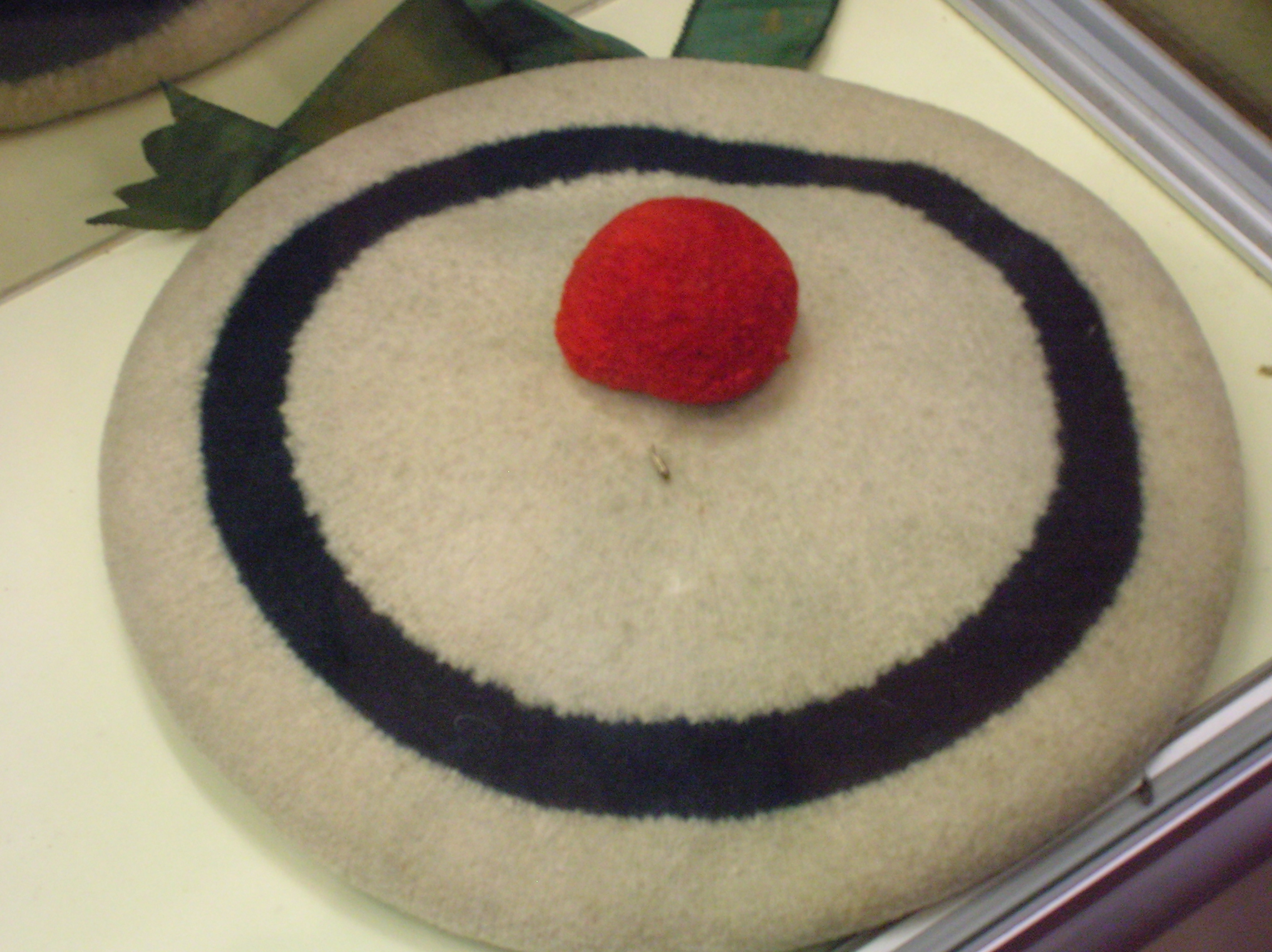 The bonnet of the Kilwinning archers society